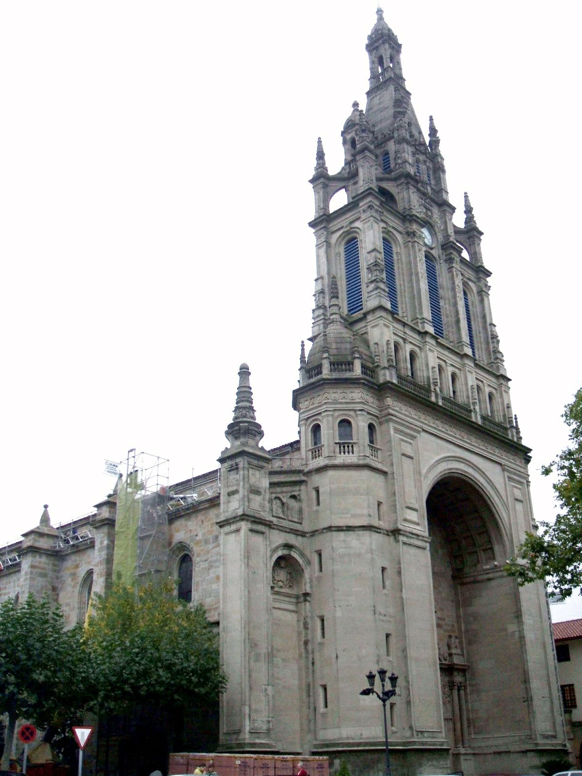 Basílica de N. S. de Begoña, en Bilbao (España)